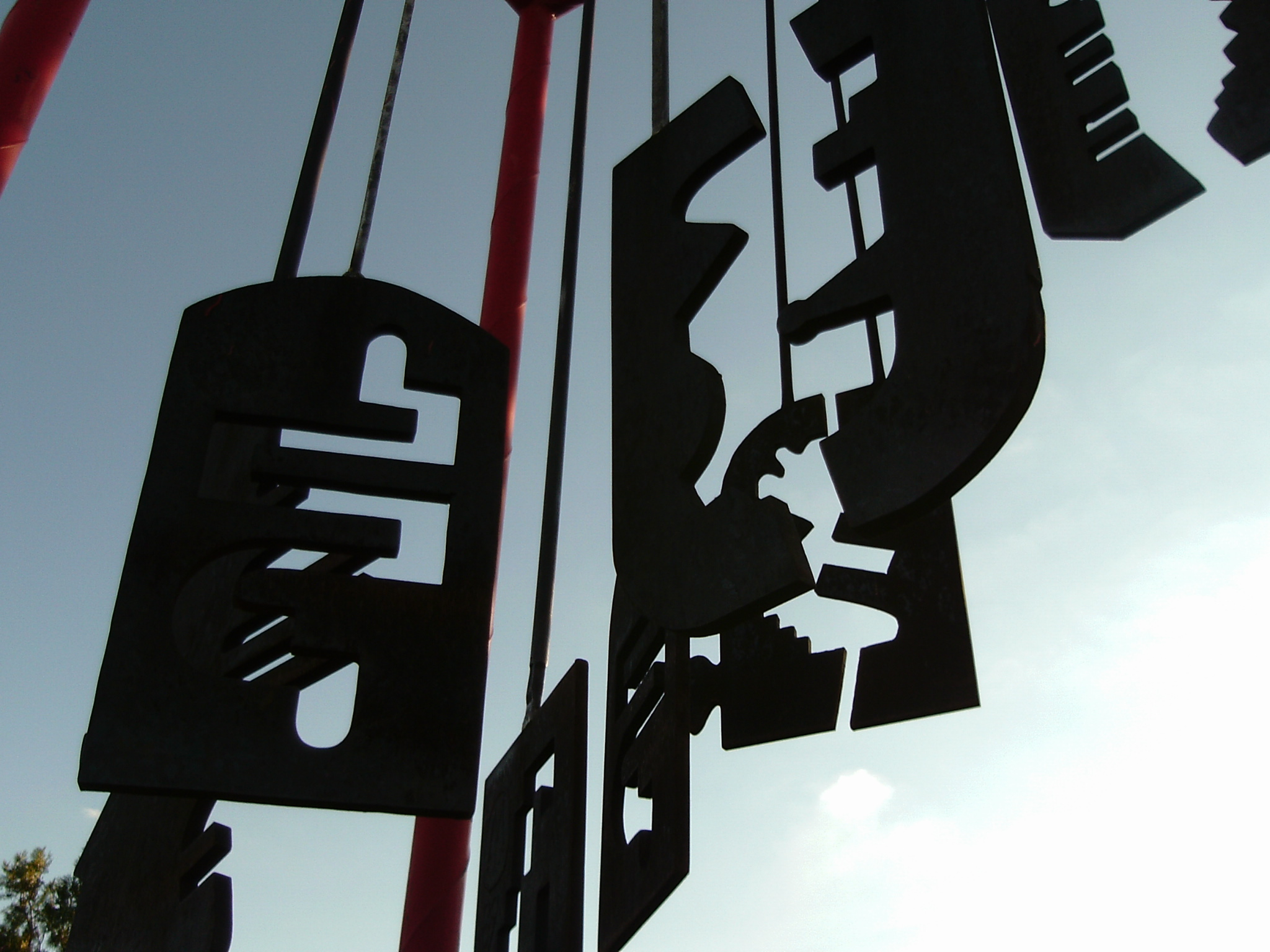 Dunaujvaros, Hungary